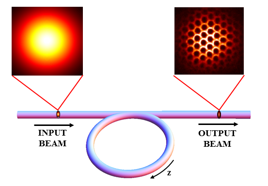 pattern formation in optical ring cavity